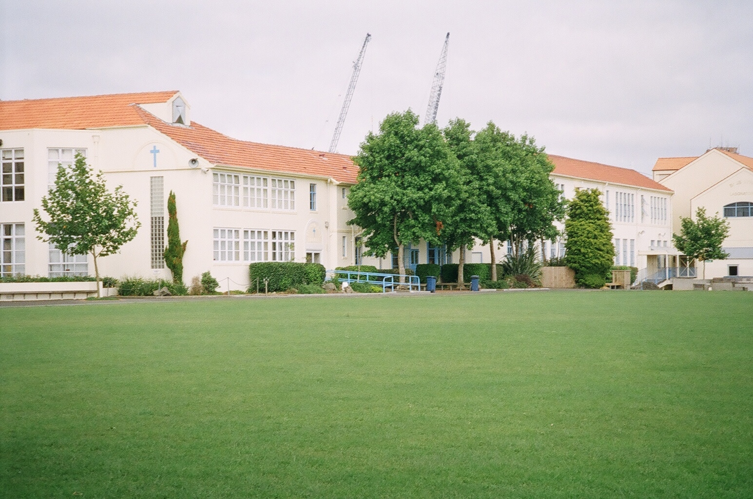 St Peter's College, Auckland. Original Buildings. Brothers' House (left) and classroom block (Bro O'Driscoll Building) (Right) (completed 1939 and 1944)